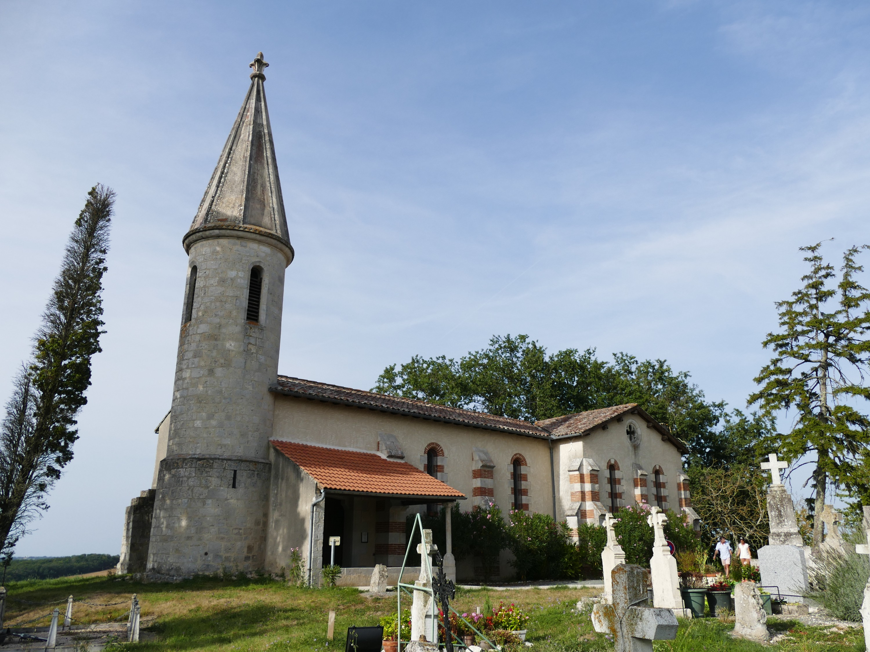 Our Lady's church in Marmont-Pachas (Lot-et-Garonne, Aquitaine, France).